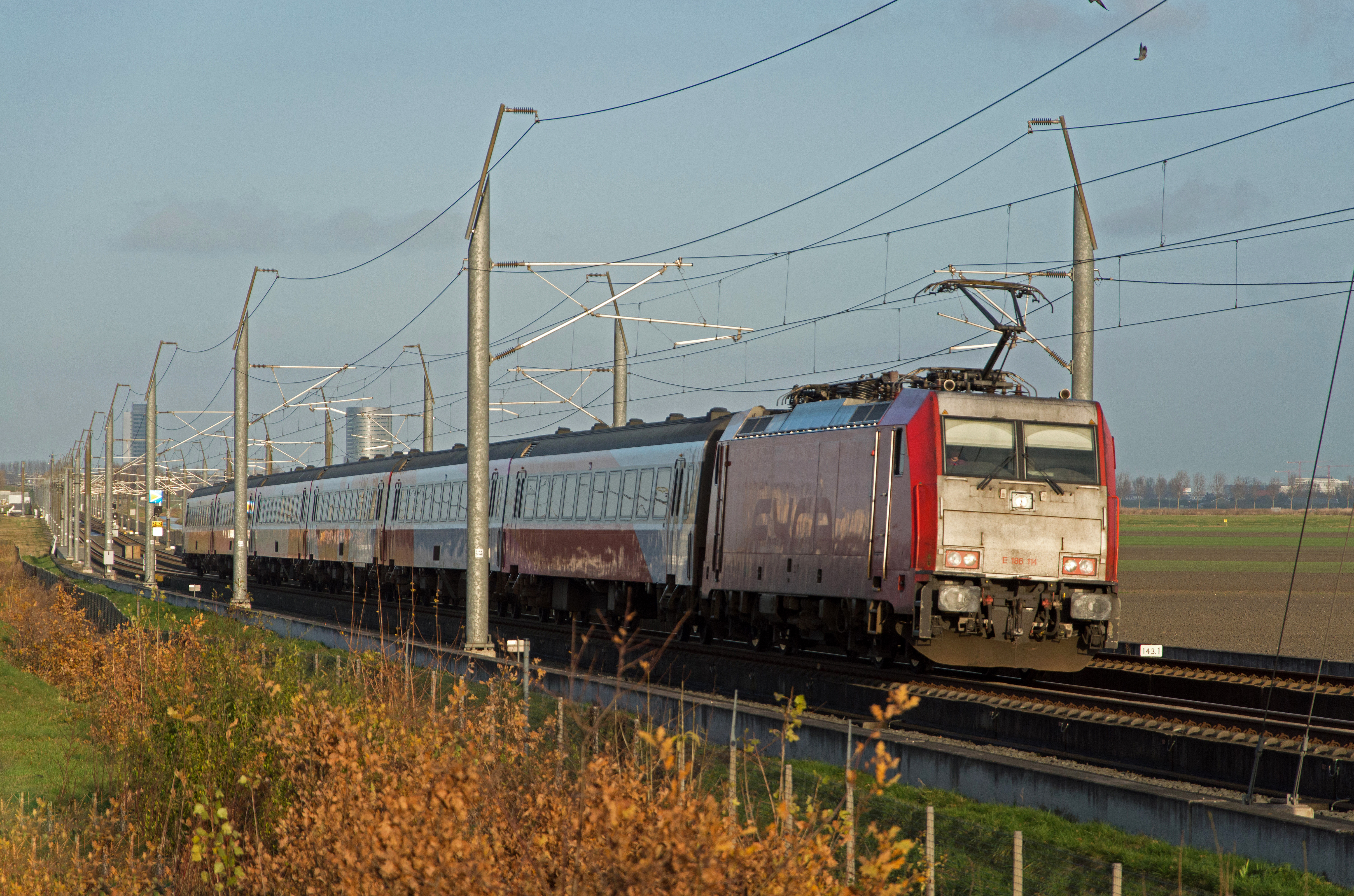 The 186 114 with the Fyra from NS HiSpeed on the HSL from Amsterdam to Rotterdam. The name Fyra disappears in December and becomes Intercity Direct.